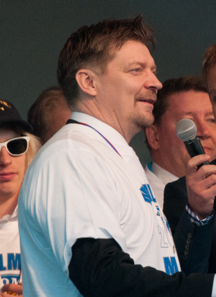 Finnish ice hockey coach Jukka Jalonen at 2011 IIHF World Championship gold medal celebrations in Helsinki